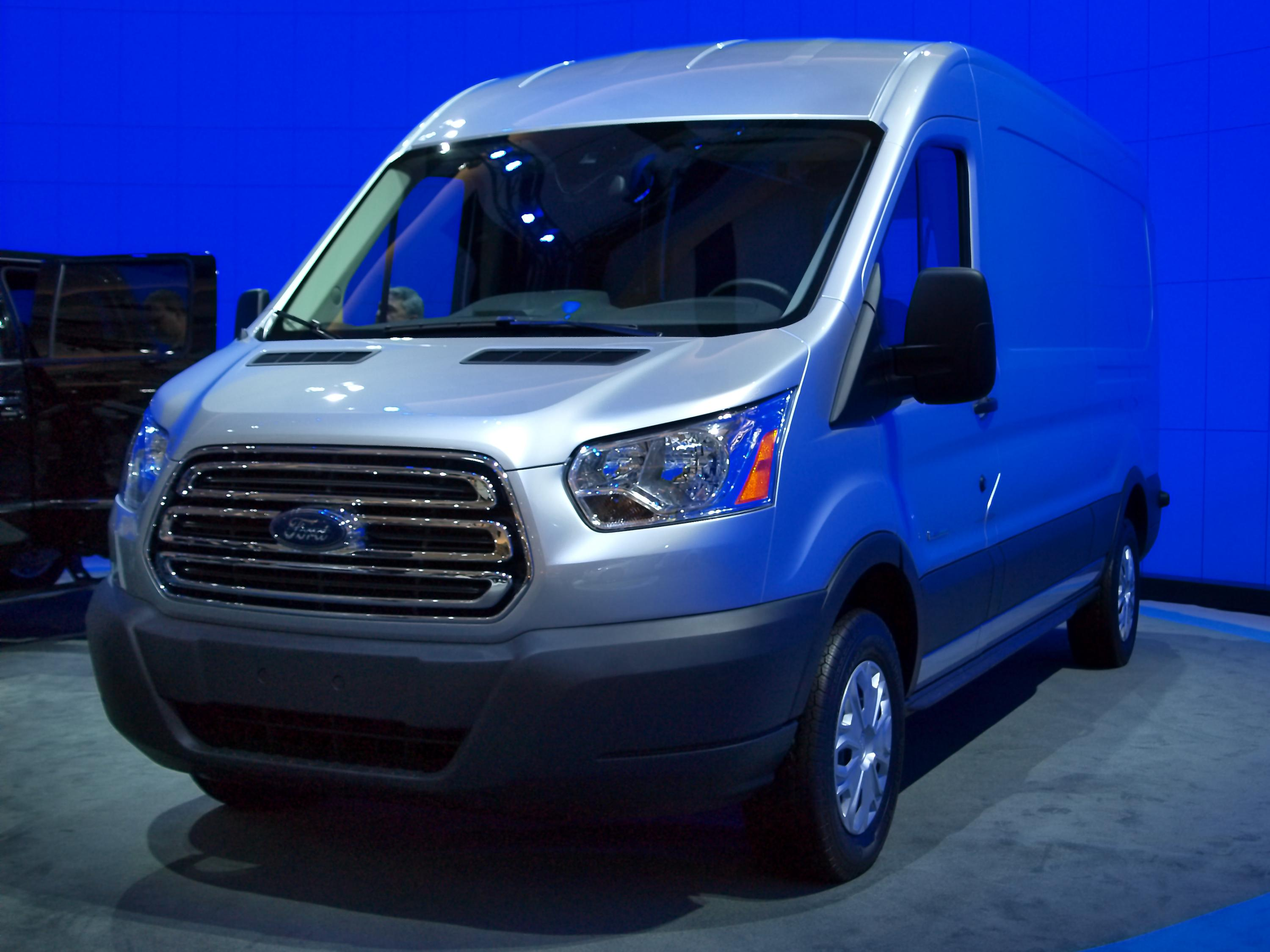 A front 3/4 view of the 2014 Ford Transit full-size van. Vehicle is shown at the 2013 Canadian International Auto Show in Toronto, Ontario, Canada.